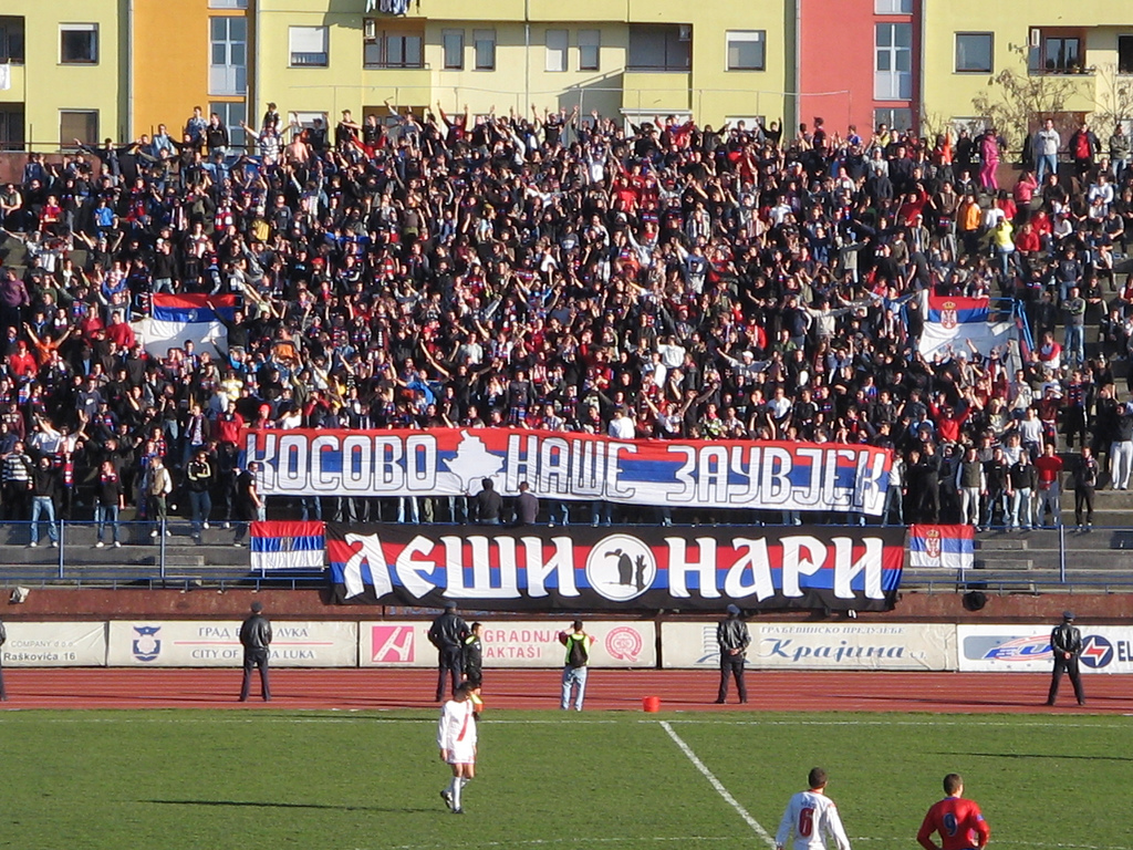 Borac-Zrinjski 1:2 (28. februar 2009.)